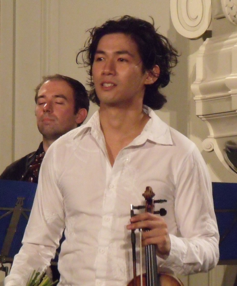 Violinist Iskandar Widjaja after performing in a concert at Französische Friedrichstadtkirche, Berlin 28th of August, 2011.